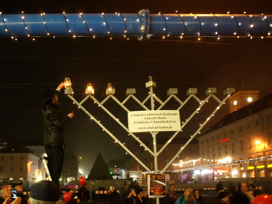 Public menorah in Karlsruhe, Germany. Rabbi Mordechai Mendelson lighting the lanterns. The big illuminated pipe on top and right shall flood the incomplete tram tunnel in case of danger of collapse.